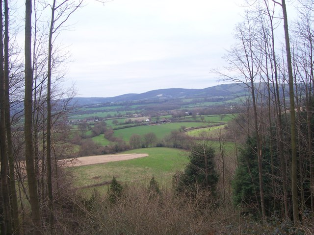 Farmland at Stroud from bridlepath up Lythe Hanger Looking SSE from the Hanger with War Down & Butser Hill in the background